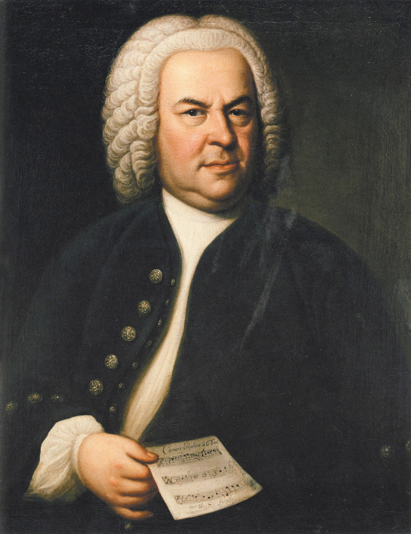 Johann Sebastian Bach (aged 61) in a portrait by Elias Gottlob Haussmann, copy or second version of his 1746 canvas. The original painting hangs in the upstairs gallery of the Altes Rathaus (Old Town Hall) in Leipzig, Germany.